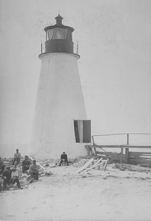 Public Domain statement here; The Back River Light was a lighthouse south of the mouth of the Back River on the western shore of the Chesapeake Bay, several miles north of Fort Monroe near Hampton, Virginia. Plagued by erosion for most of its existence, it was destroyed in 1956 by Hurricane Flossy.